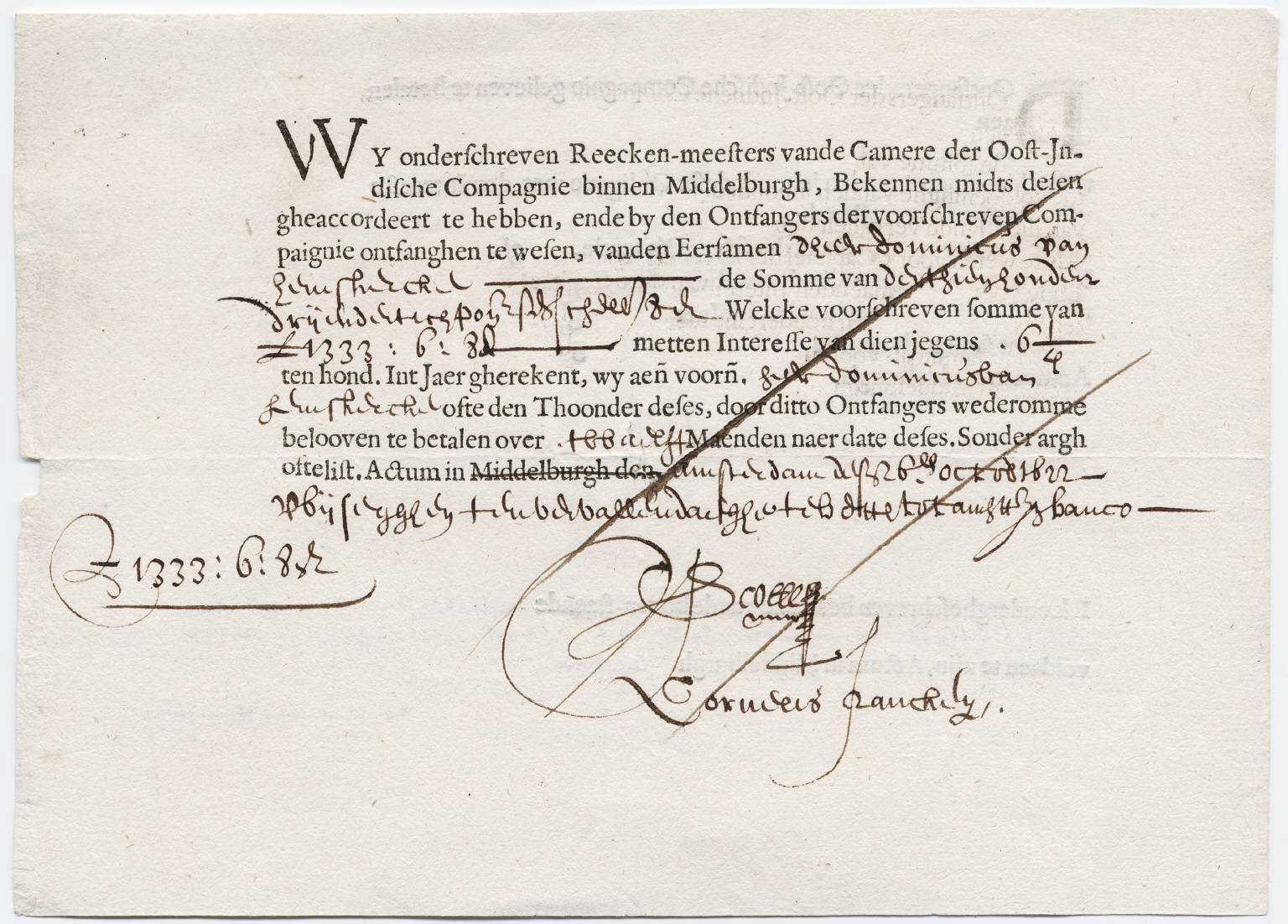 "Bond issued by the Dutch East India Company," in printed form with manuscript, 16 cm. x 21 cm. Courtesy of the Beinecke Rare Book and Manuscript Library, General Collection, Yale University, New Haven, Connecticut.